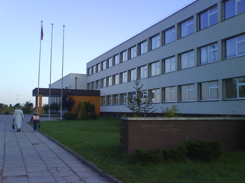 Kupiškis Povilas Matulionis Basic School